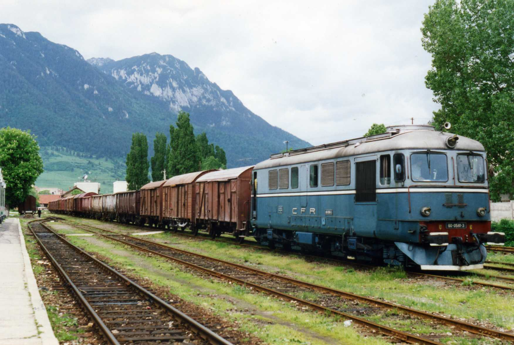 From a photographic print. May be compared with the similar slide shot of the same scene. 60 0581-3 seems to have an extremely heavy load for such a small branch line. In the background, the Carpathian mountains.